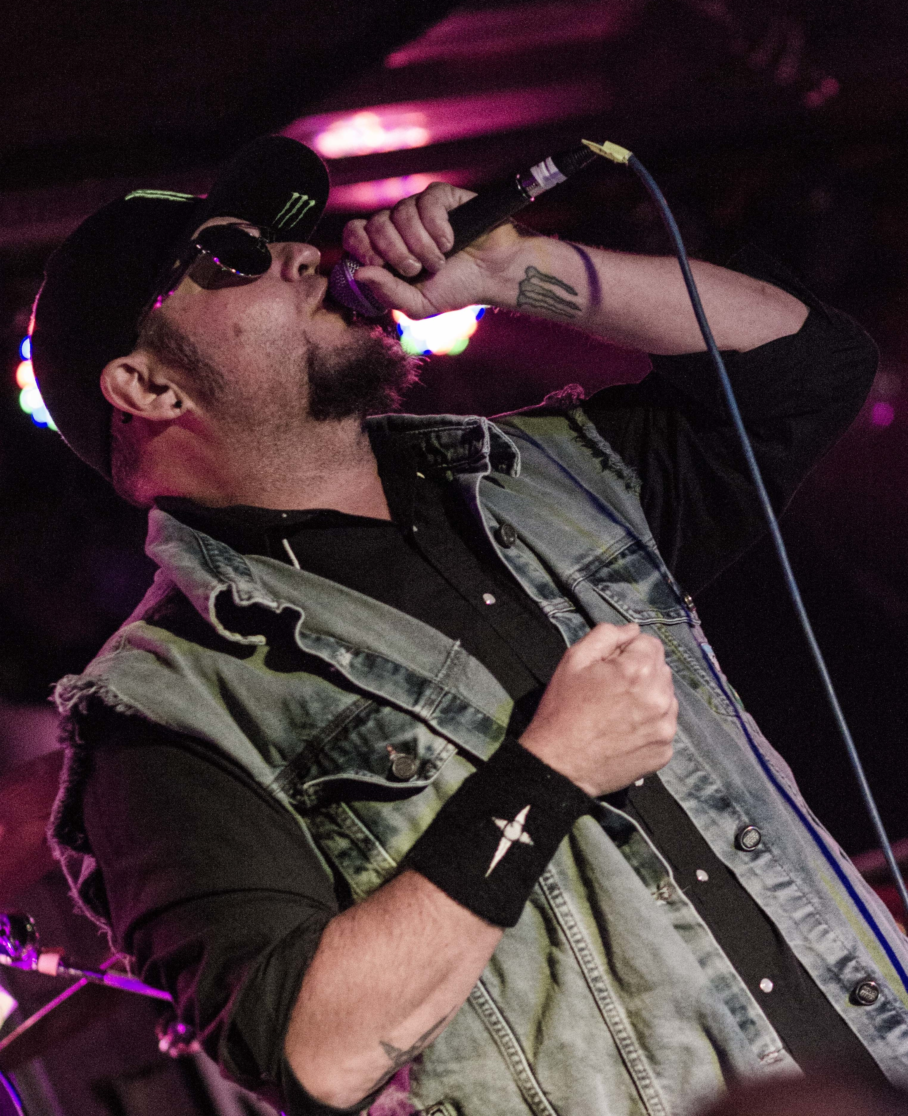 Tim Ripper Owens 2019